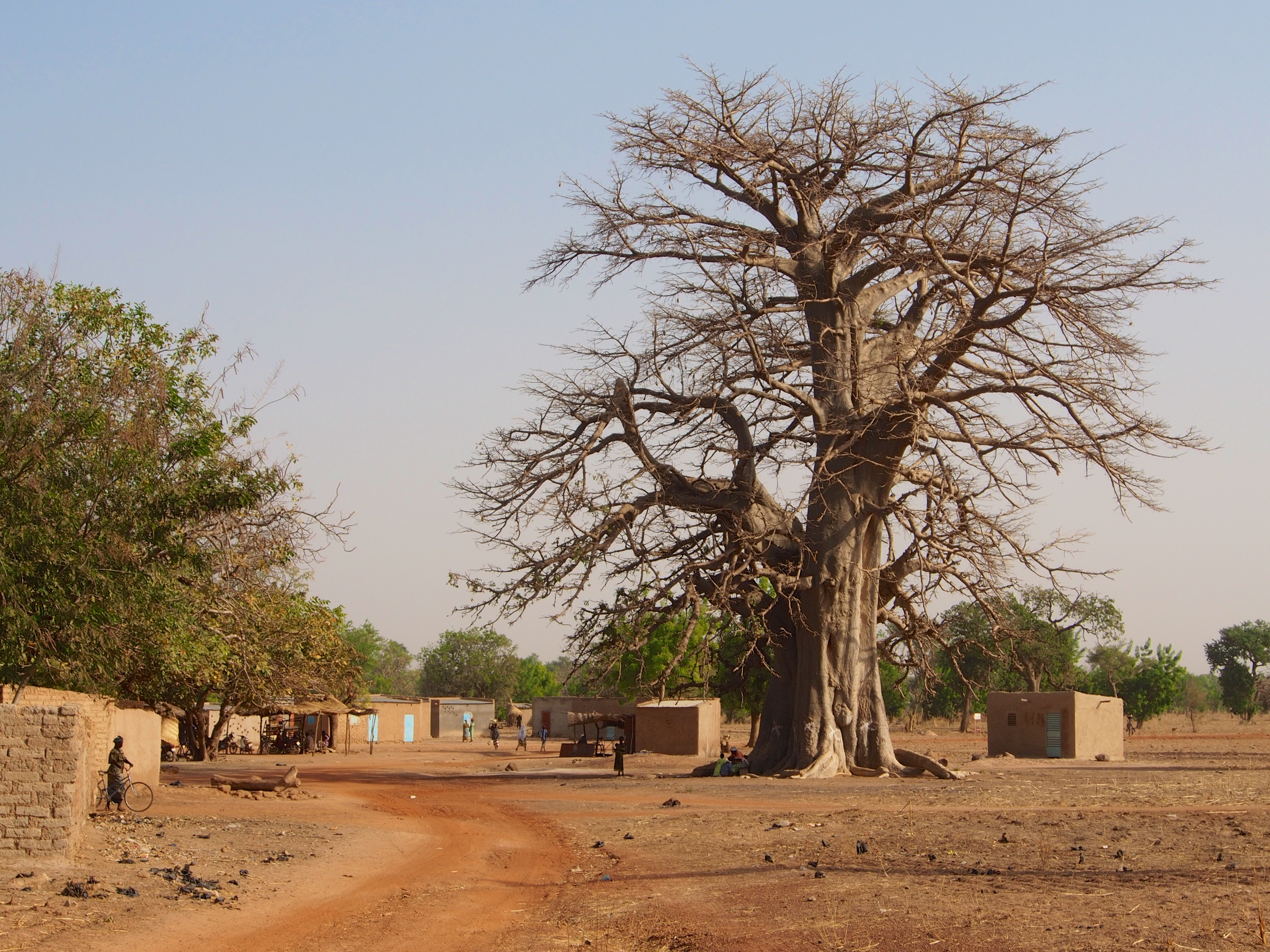 An huge baobab tree in the center of the village of Pitmoaga, communality of Kokologho, Burkina Faso